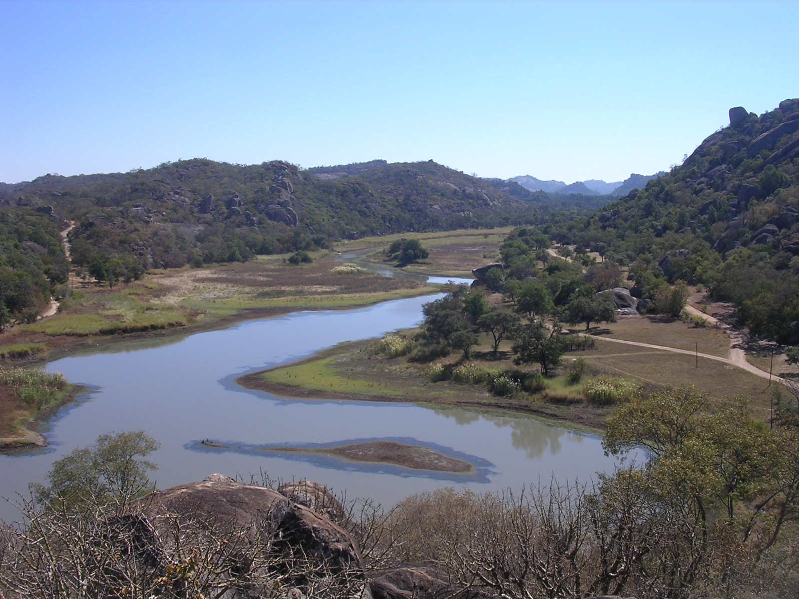 Maleme Dam from the southeast, Matobo National Park, Zimbabwe